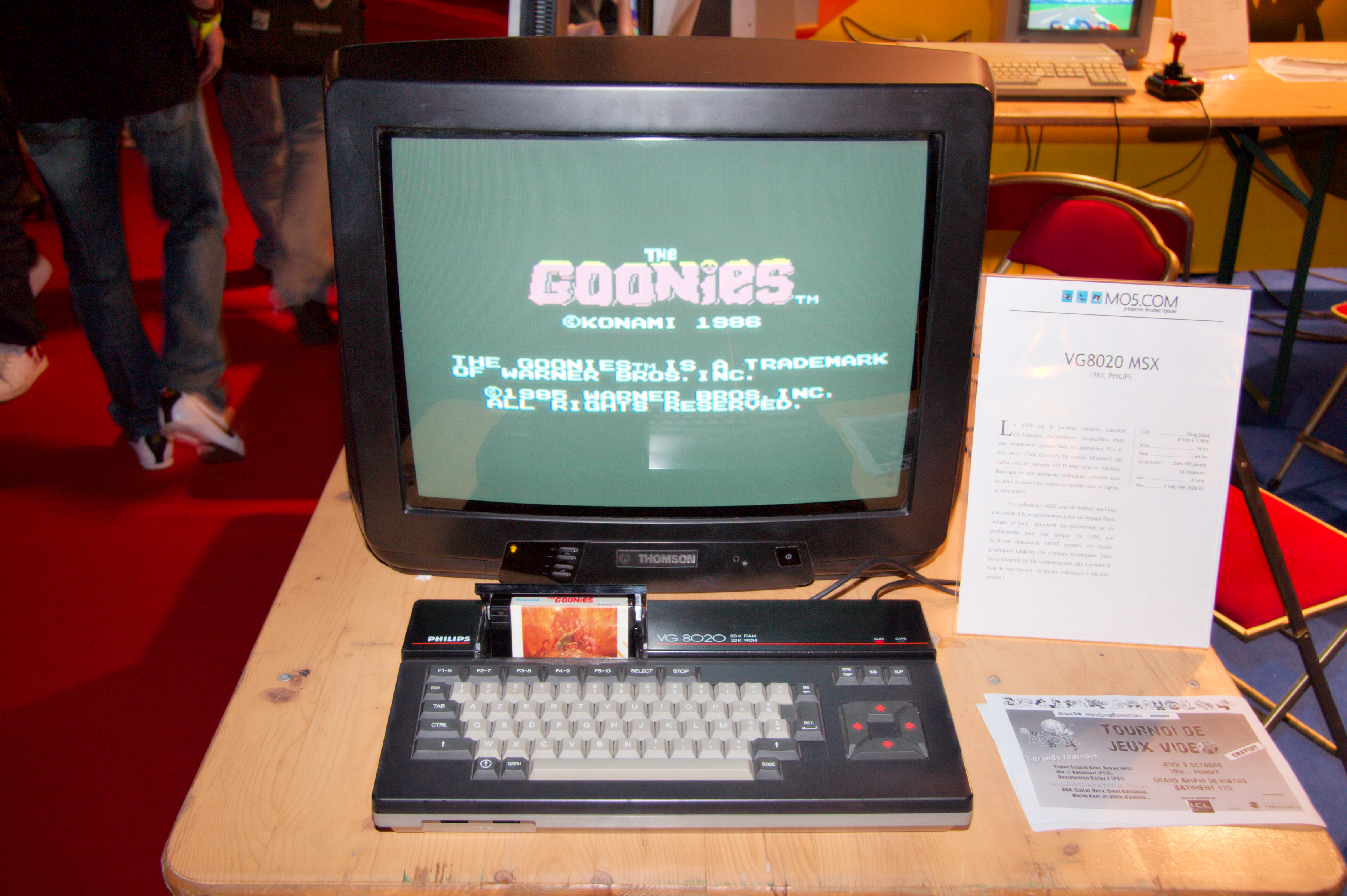 Title screen of The Goonies in a VG-8020 (Philips MSX) at the Festival du jeu vidéo 2008 (video game festival) (Paris, France).